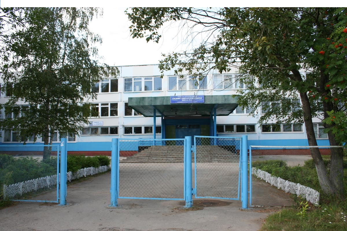 Cheboksary School №41